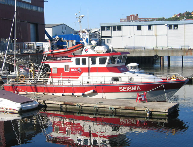 Seisma, the survey vessel owned and used by Norwegian geological survey.